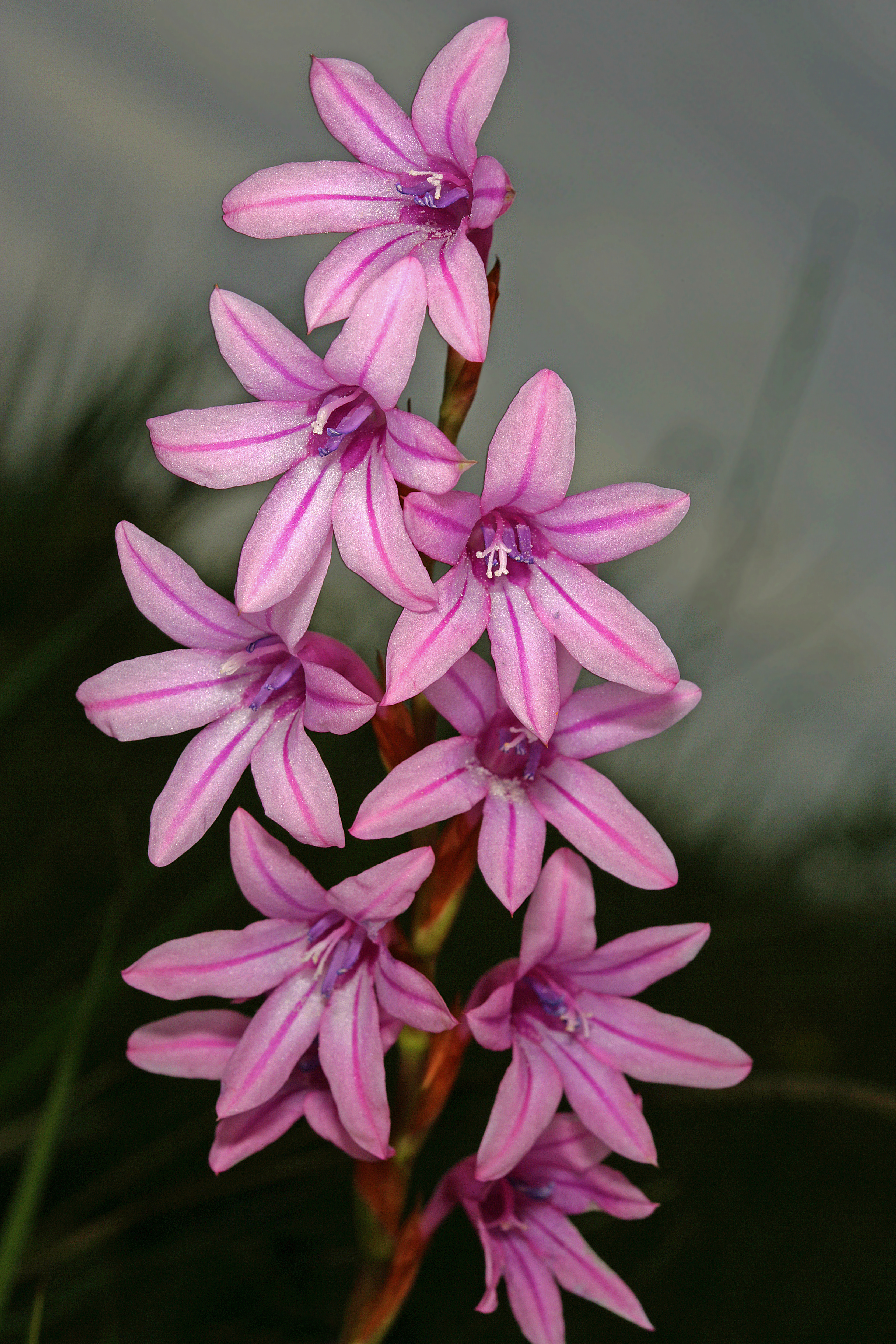 Watsonia inclinata, flowers (front view); grassland on sandstone, Umtamvuna Nature Reserve, Port Edward, KwaZulu-Natal, South Africa